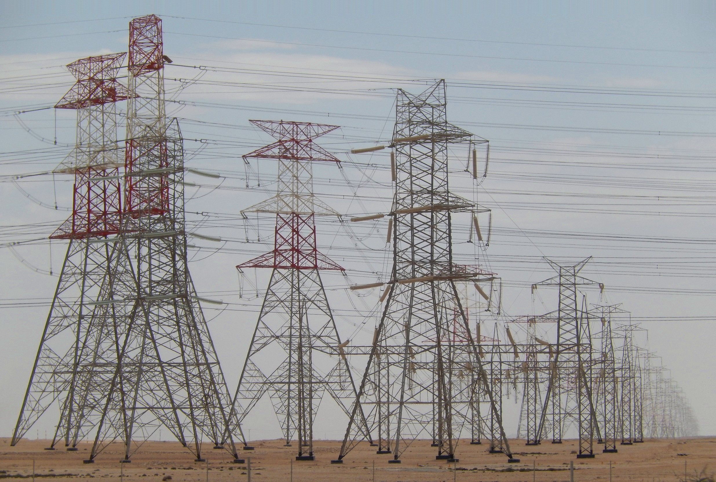 Power lines in the municipality of Al Khor in northern Qatar, not far from the village of Umm al Quhab (also known as Umm al Qahab). Looking to the southwest.